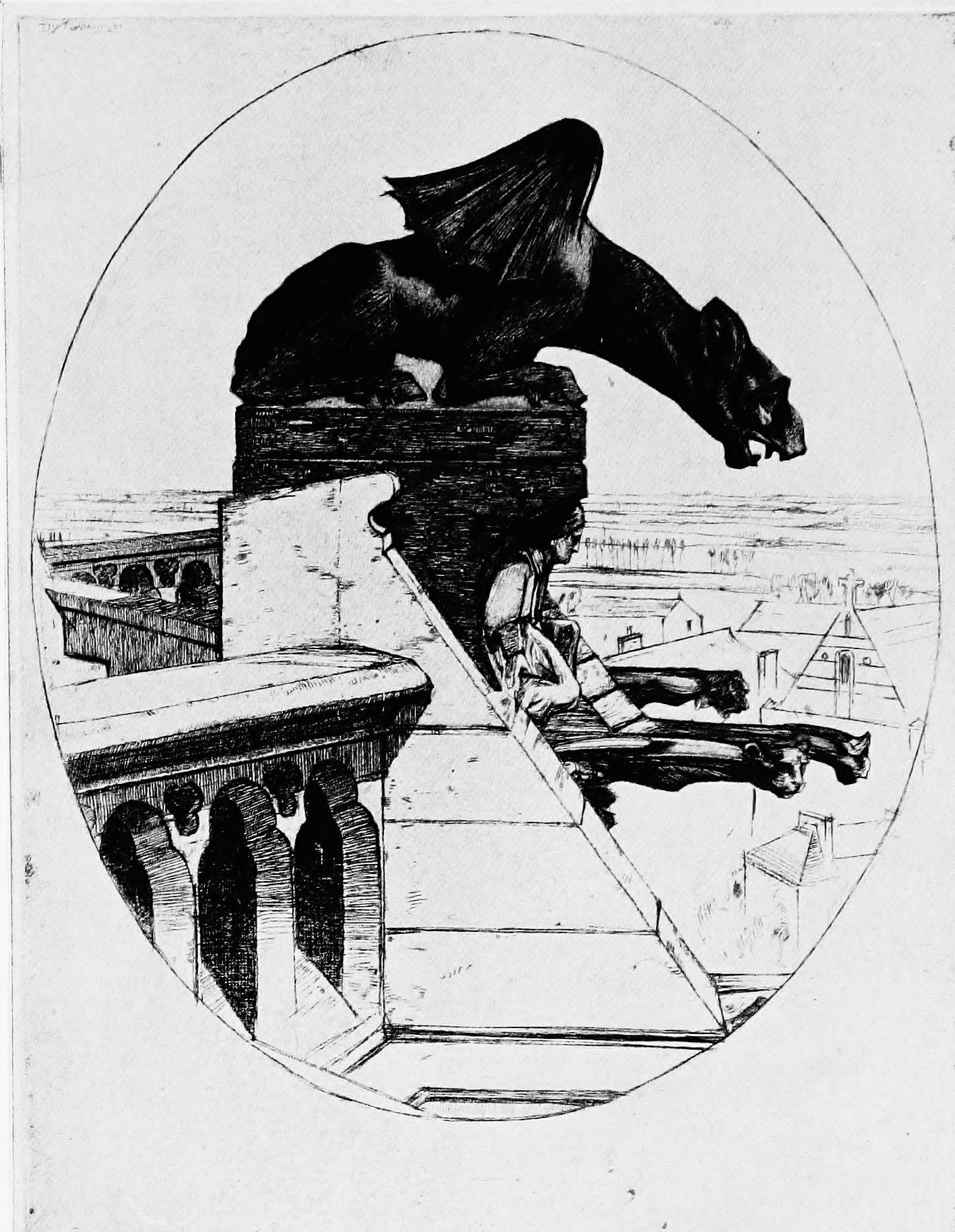 Title: Modern etchings, mezzotints and dry-points Year: 1913 (1910s) Authors: Holme, Charles, 1848-1923 Salaman, Malcolm C. (Malcolm Charles), 1855-1940 Taylor, E. A Zilcken, Ph., 1857-1930 Levetus, A. S Deubner, Ludwig, 1877-1946 Laurin, Thorsten Subjects: Etching Mezzotint engraving Dry-point Publisher: London, New York (etc.) "The Studio" ltd. Text Appearing Before Image: RAMESES II. ORIGINAL ETCHING WITH DRY-POINTBY D. Y. CAMERON, A.R.A.. ^.R.S.A. Q.REAT BRITAIN Text Appearing After Image: THE CHIMERA OF AMIENS. ORIGINAL ETCHING WITHDRY-POINT BY D. Y. CAMERON, A.R A. A.R.S.A. 23 GREAT BRITAIN